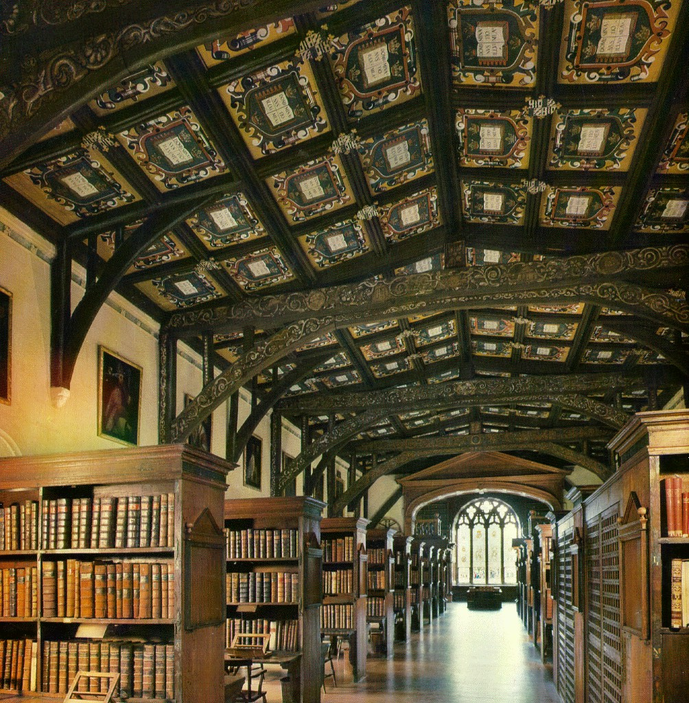 Duke Humfrey's Library, the oldest part of the Bodleian Library, Oxford